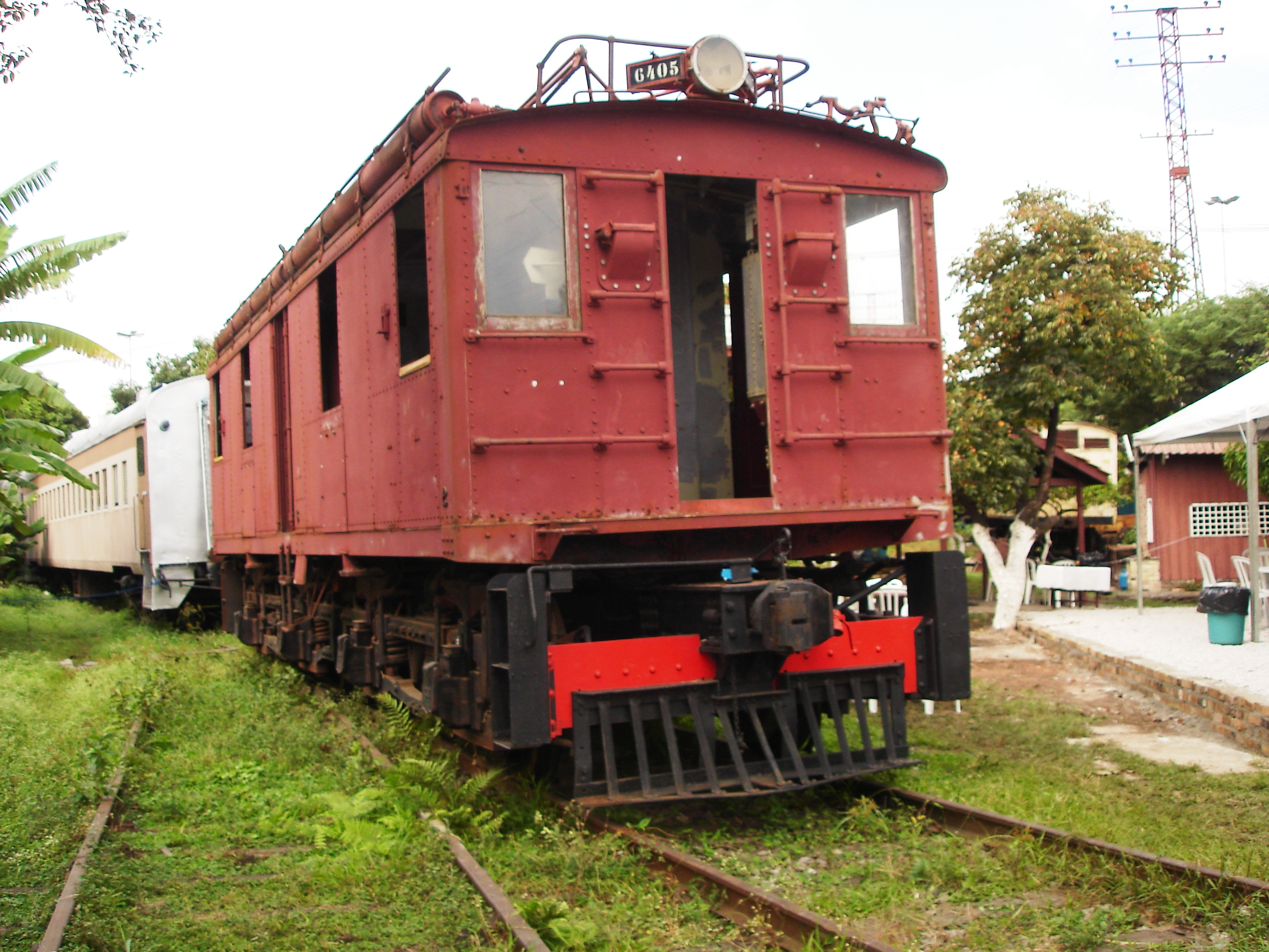 Electric locomotive built by GE in the U.S. in 1921, especially for transport of cargo. Belonged to Paulista Railway, originally #208, then #404. Operated in Fepasa (#6405) and today is part of the acquis of ABPF-SP. It is still preserved.